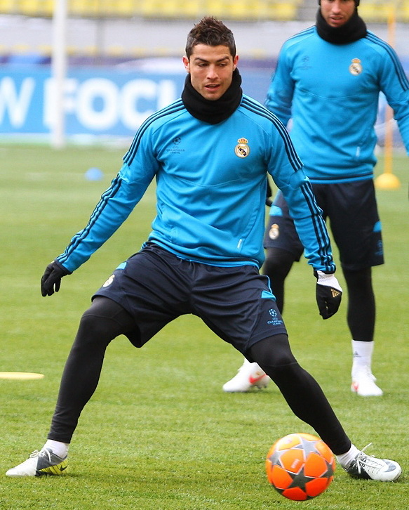 Cristiano Ronaldo